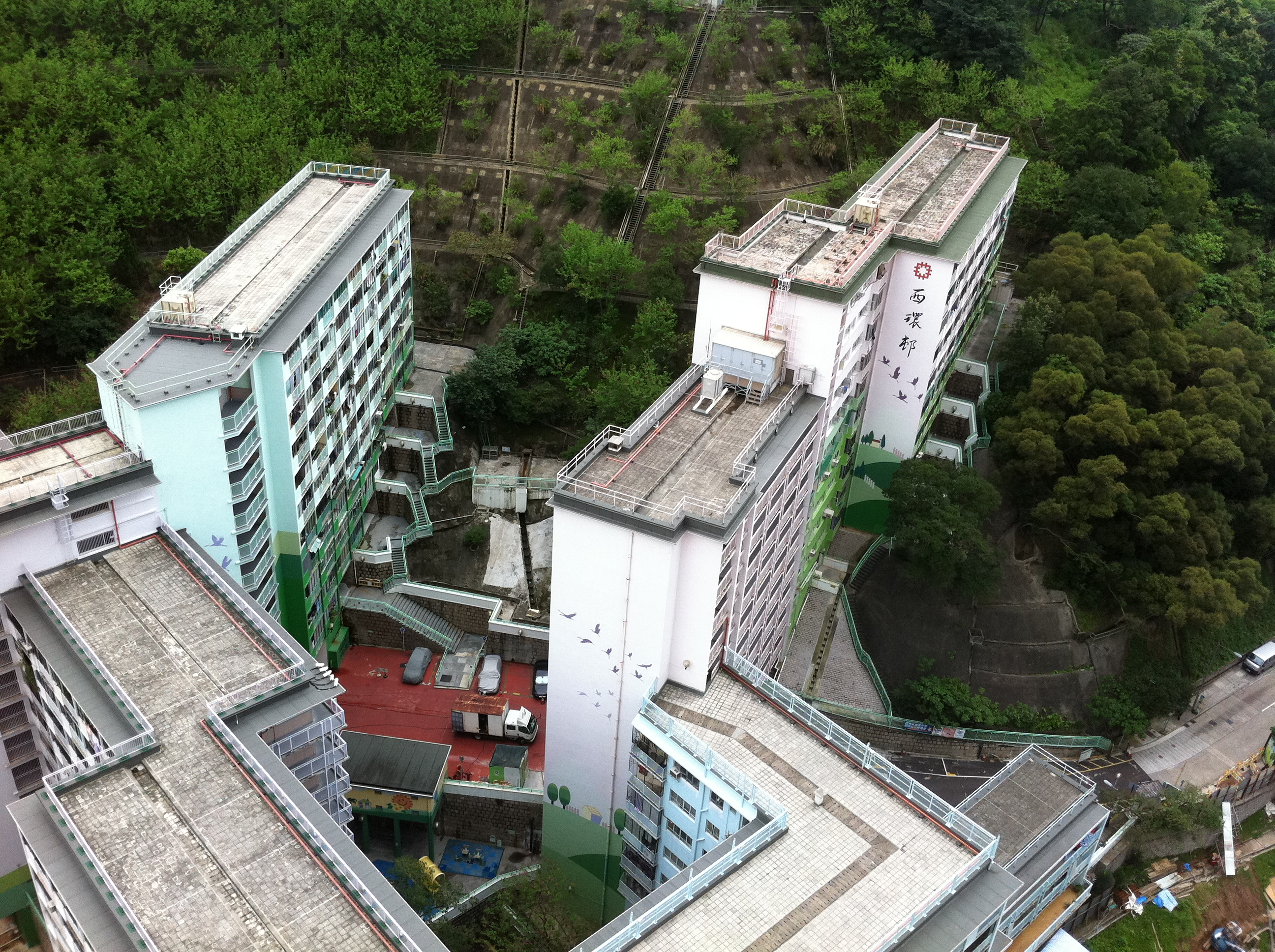 西環邨, Sai Wan Estate, View from Centenary Mansion, Kennedy Town, Hong Kong